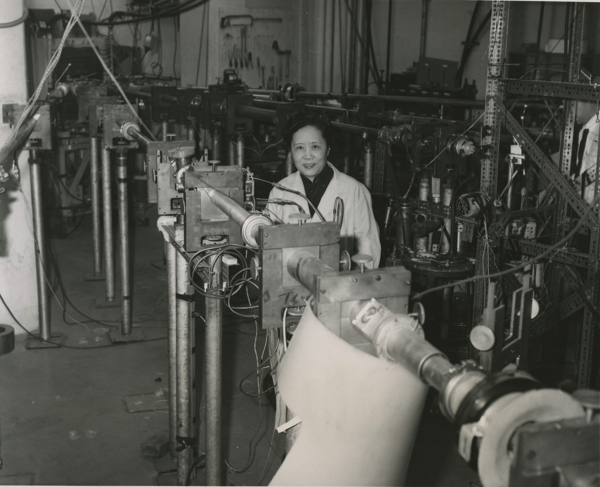 Subject: Wu, C. S (Chien-shiung) 1912-1997 Columbia University Type: Black-and-white photographs Date: 1963 3/20/1963 Topic: Physics Local number: SIA Acc. 90-105 [SIA2010-1507] Summary: In 1963, Chien-Shiung Wu (1912-1997), professor of physics at Columbia University, was already considered one of the world's foremost experimental physicists. Her experiments, with the aid of associates Y.K. Lee and L.W. Mo, confirmed the theory of sub-atomic behavior known as "weak interaction Cite as: Acc. 90-105 - Science Service, Records, 1920s-1970s, Smithsonian Institution Archivess Persistent URL: Link to data base record Repository: Smithsonian Institution Archives